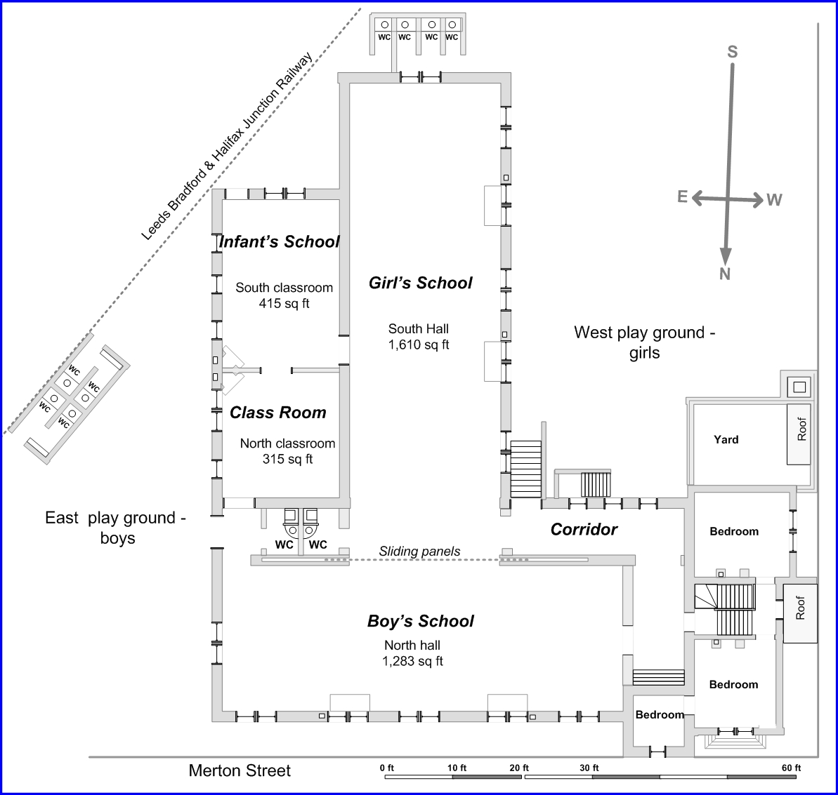 Plans of Ripley Ville school. Footprint from 1:500 OS map. Internal arrangements as per Andrews Son & Pepper deposit plan 1867. Other information Classroom (east) range as completed 1868 differs from this drawing.